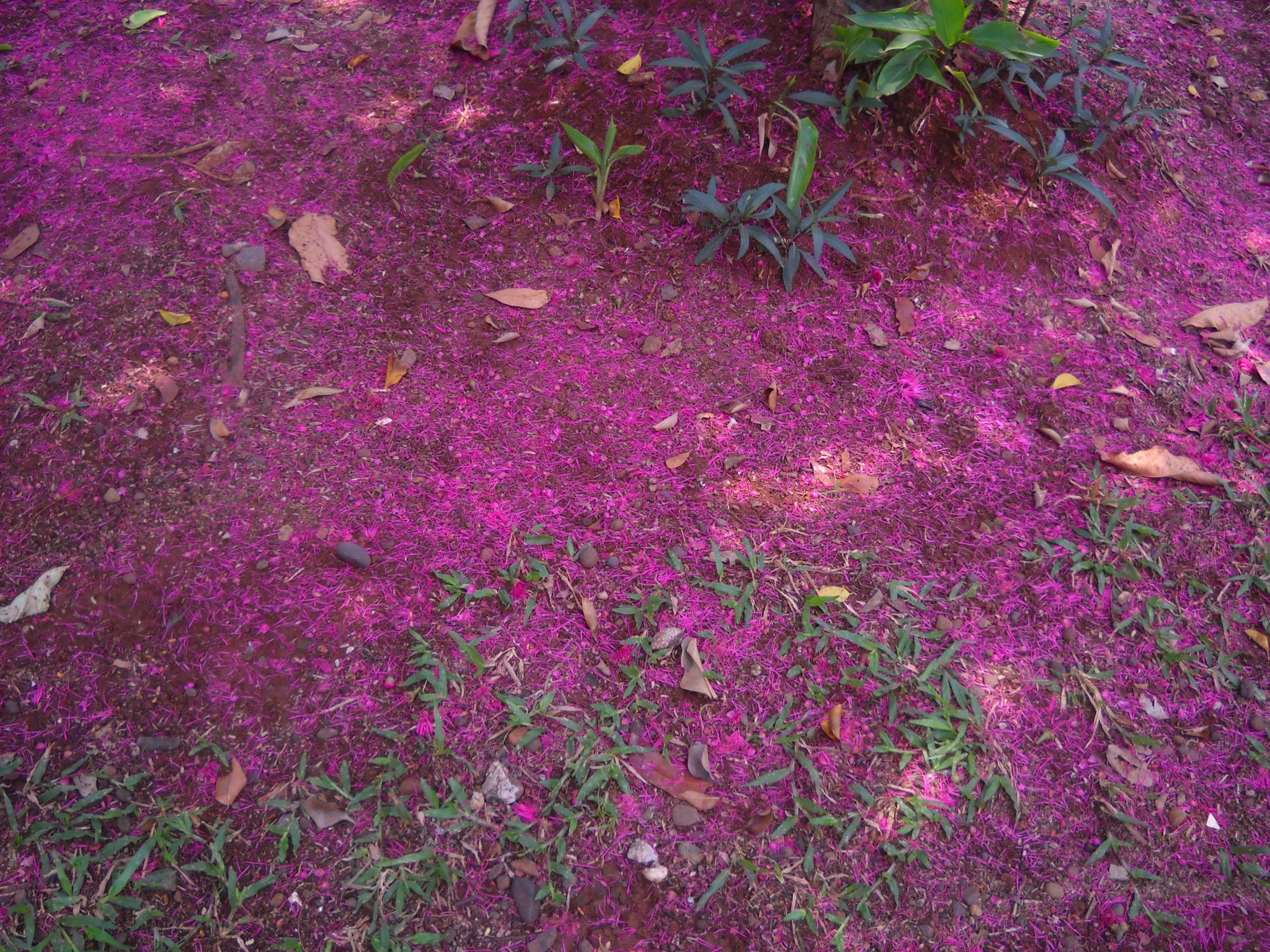 Syzygium malaccense flowers falling on the ground. 客家語/Hak-kâ-ngî: 蓮霧花在印尼雅加達個公園滿地泥。